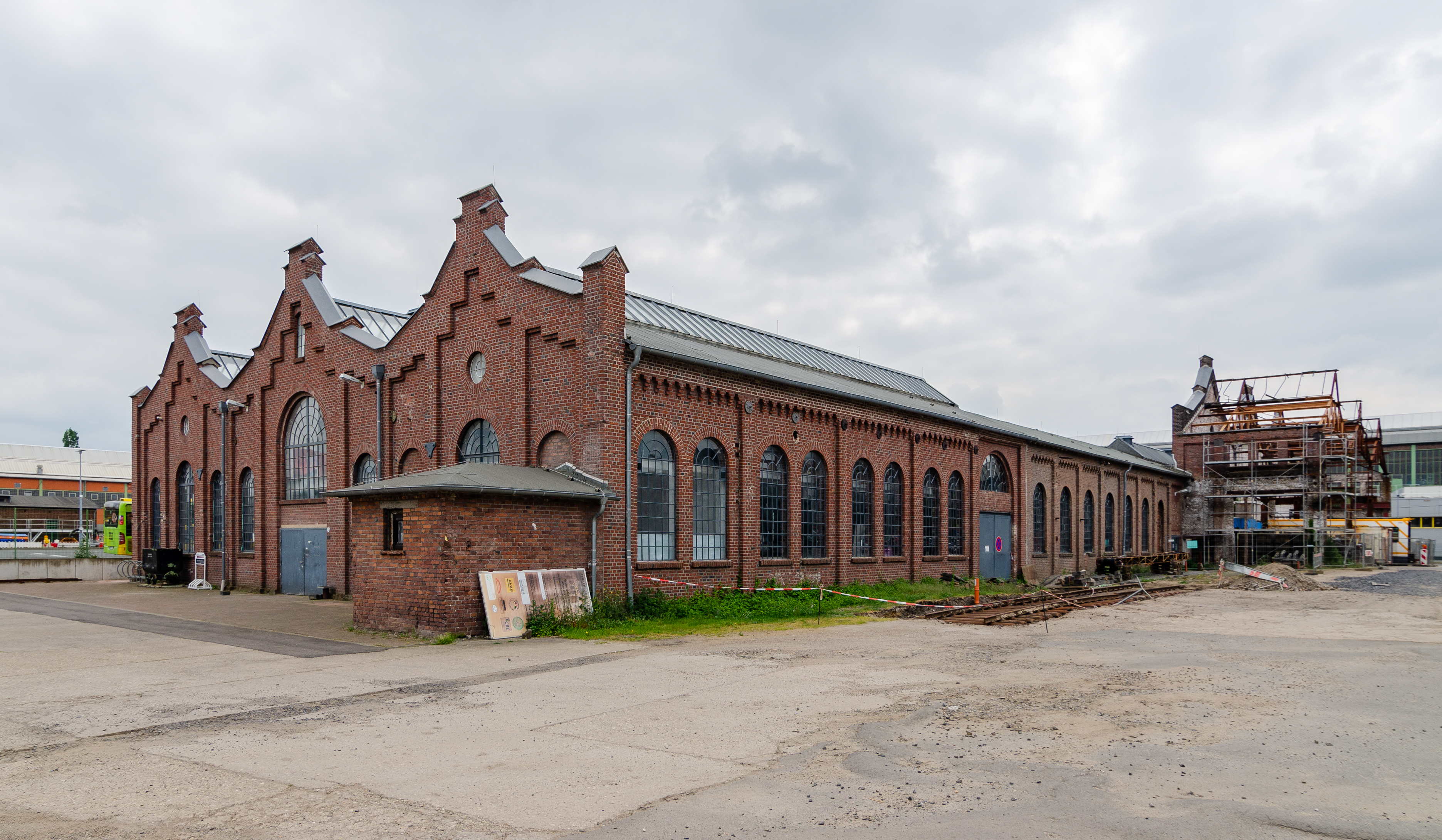 Mülheim (North Rhine-Westphalia, Germany) – former Speldorf Railway Workshop – old turning shop